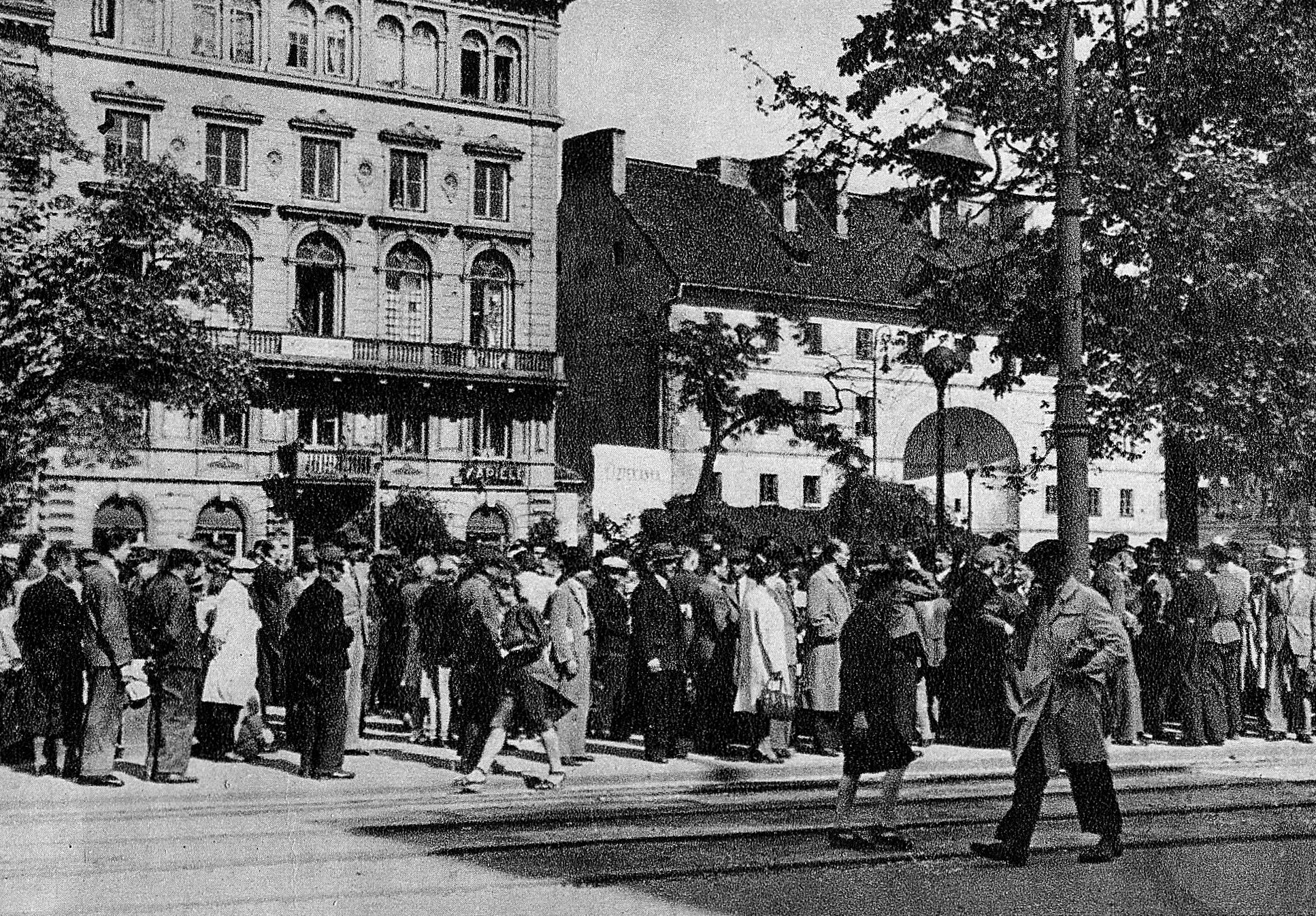 Passers-by gathered near a street laudspeaker (so-called szczekaczka) on Krakowskie Przedmieście Street in Warsaw